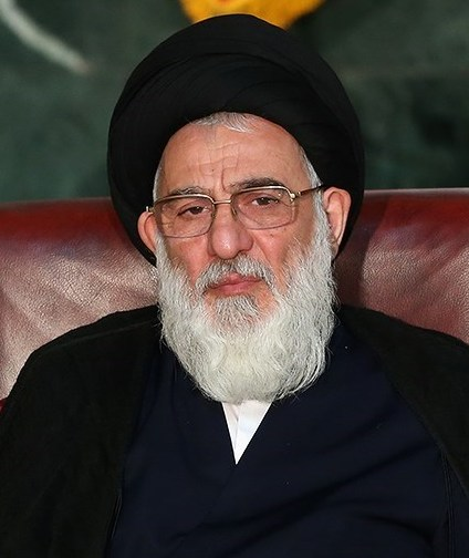 Mahmoud Hashemi Shahroudi